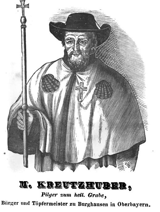 Martin Kreutzhuber as a pilgrim